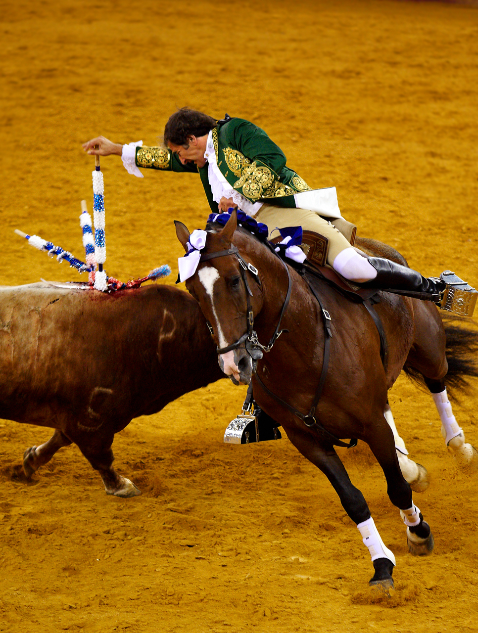 Bullfight in Campo Pequeno, Lisboa. 105mm VR with TC-17E II